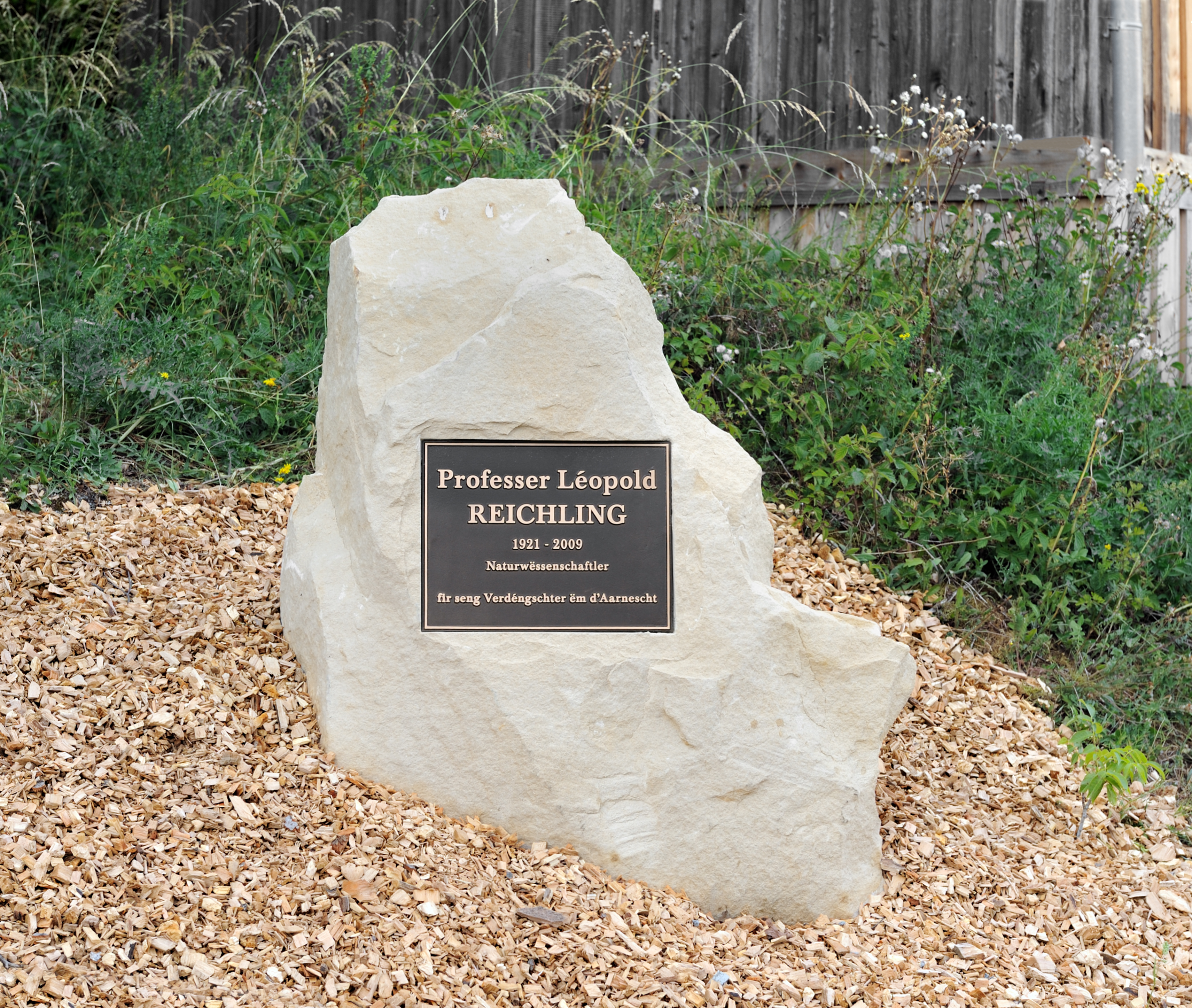 Luxembourg Niederanven, nature reserve Aarnescht: monument commemorating the naturalist Léopold Reichling (1921-2009), who was the first to publish on the remarkable biodiversity of the present-day nature reserve.